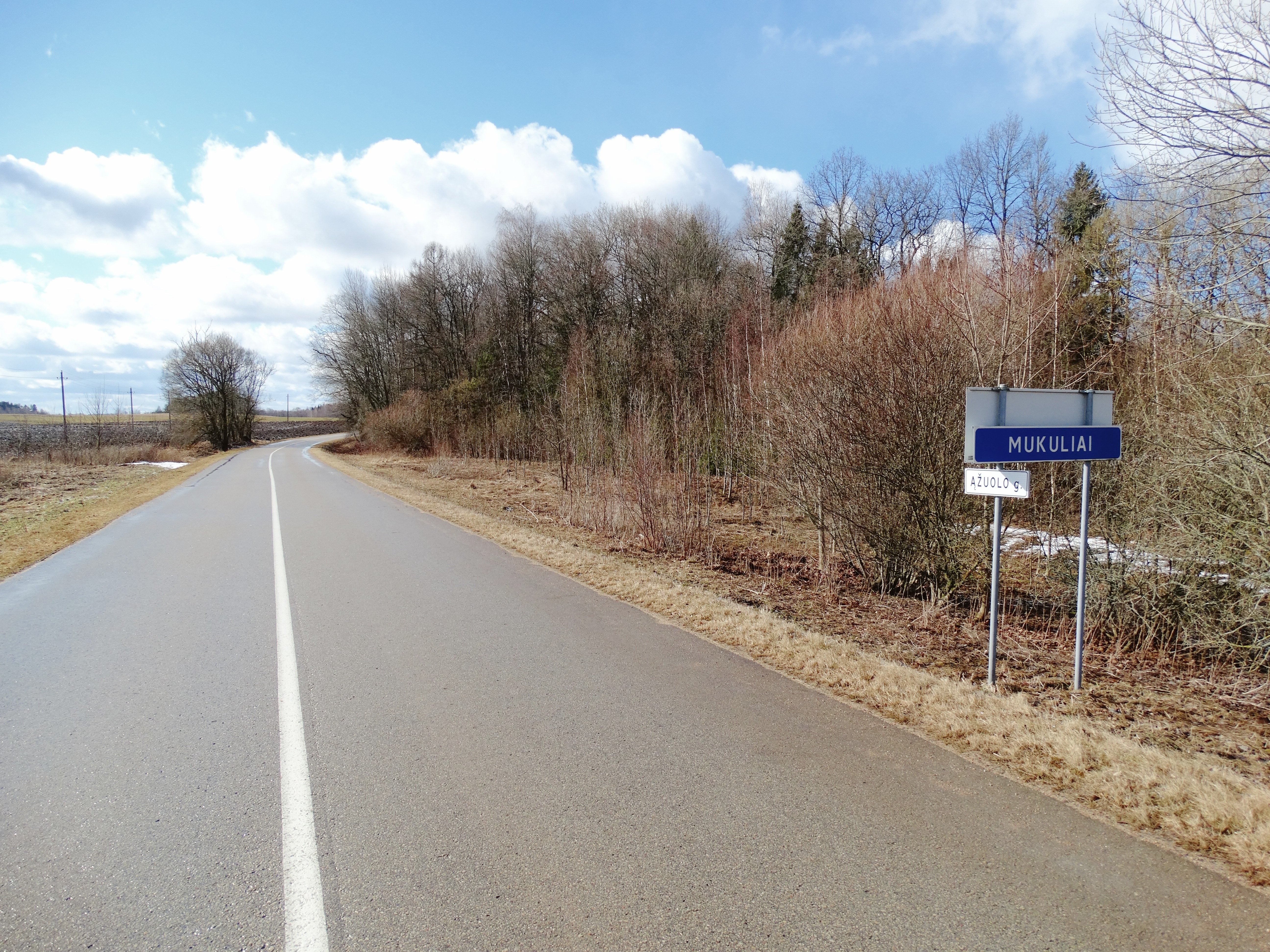 Mukuliai, Zarasai district, Lithuania